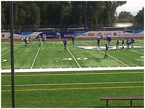 Borregos. American football team of ITESM Mexico City Campus